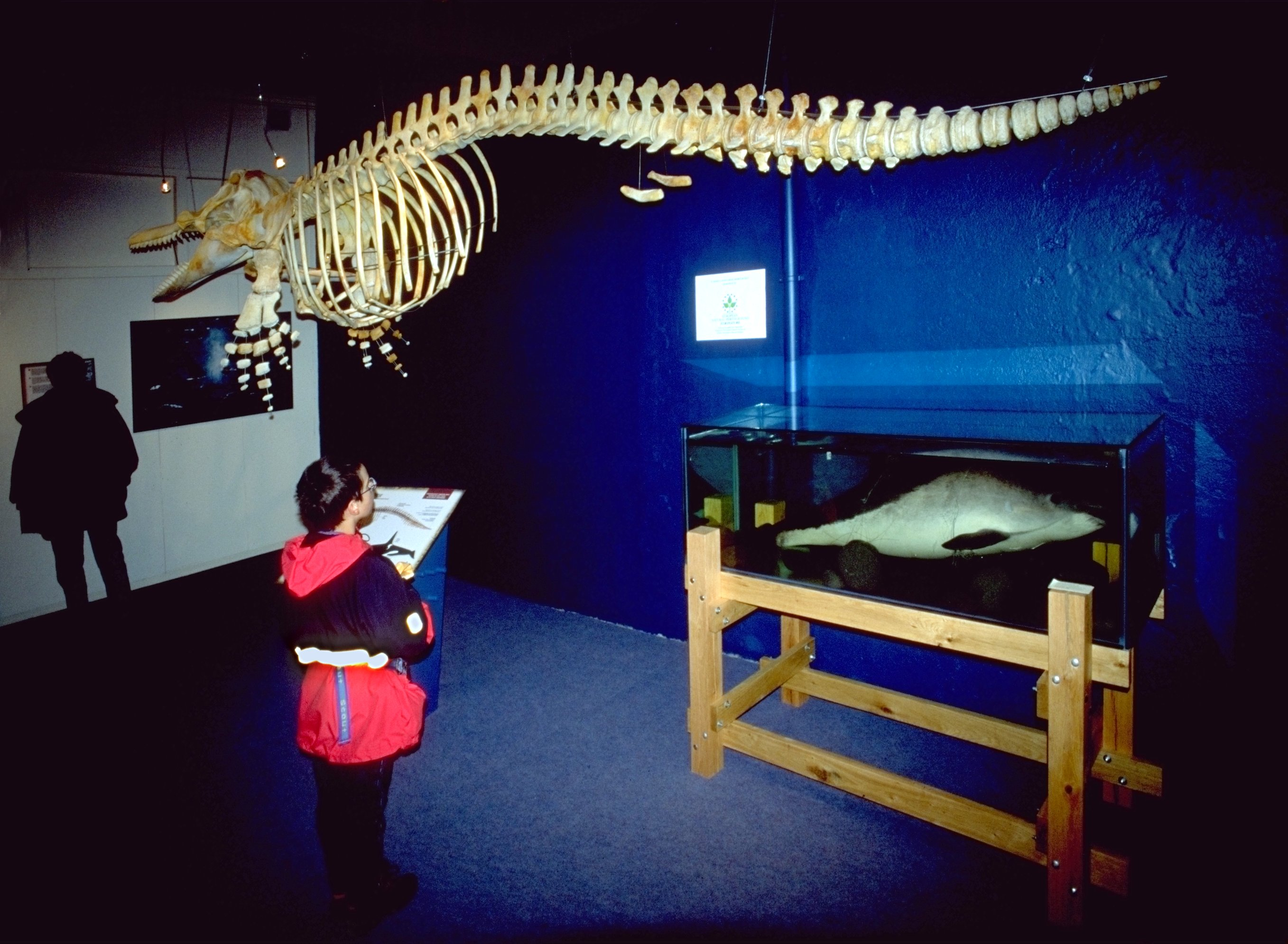 Whale museum of Húsavík, Iceland